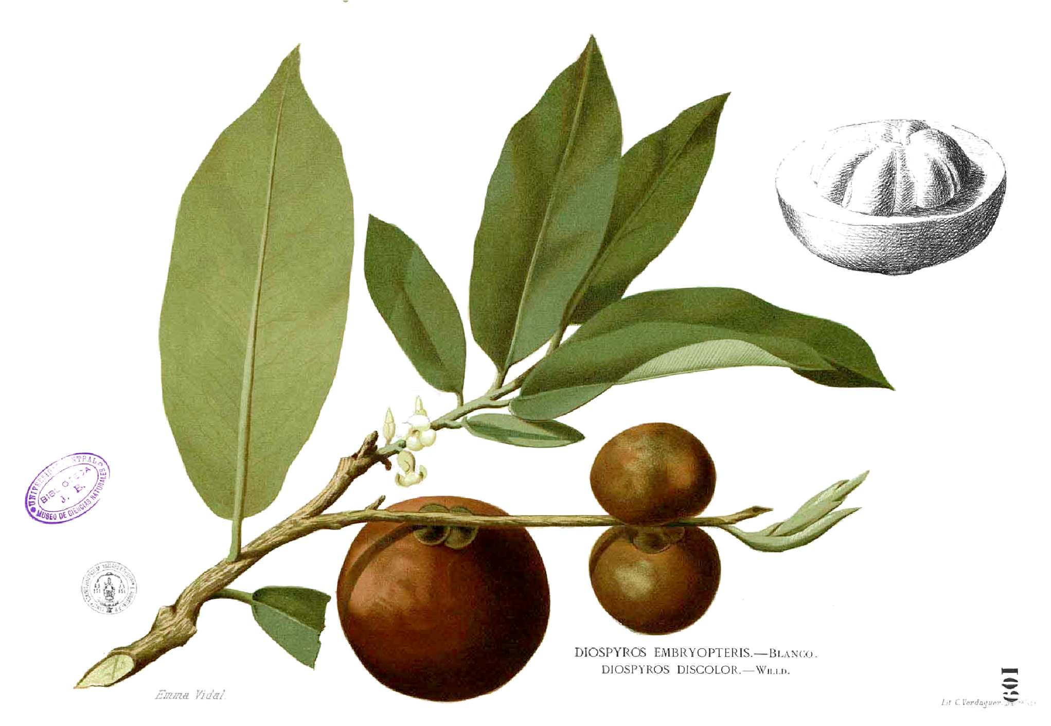 Plate from book